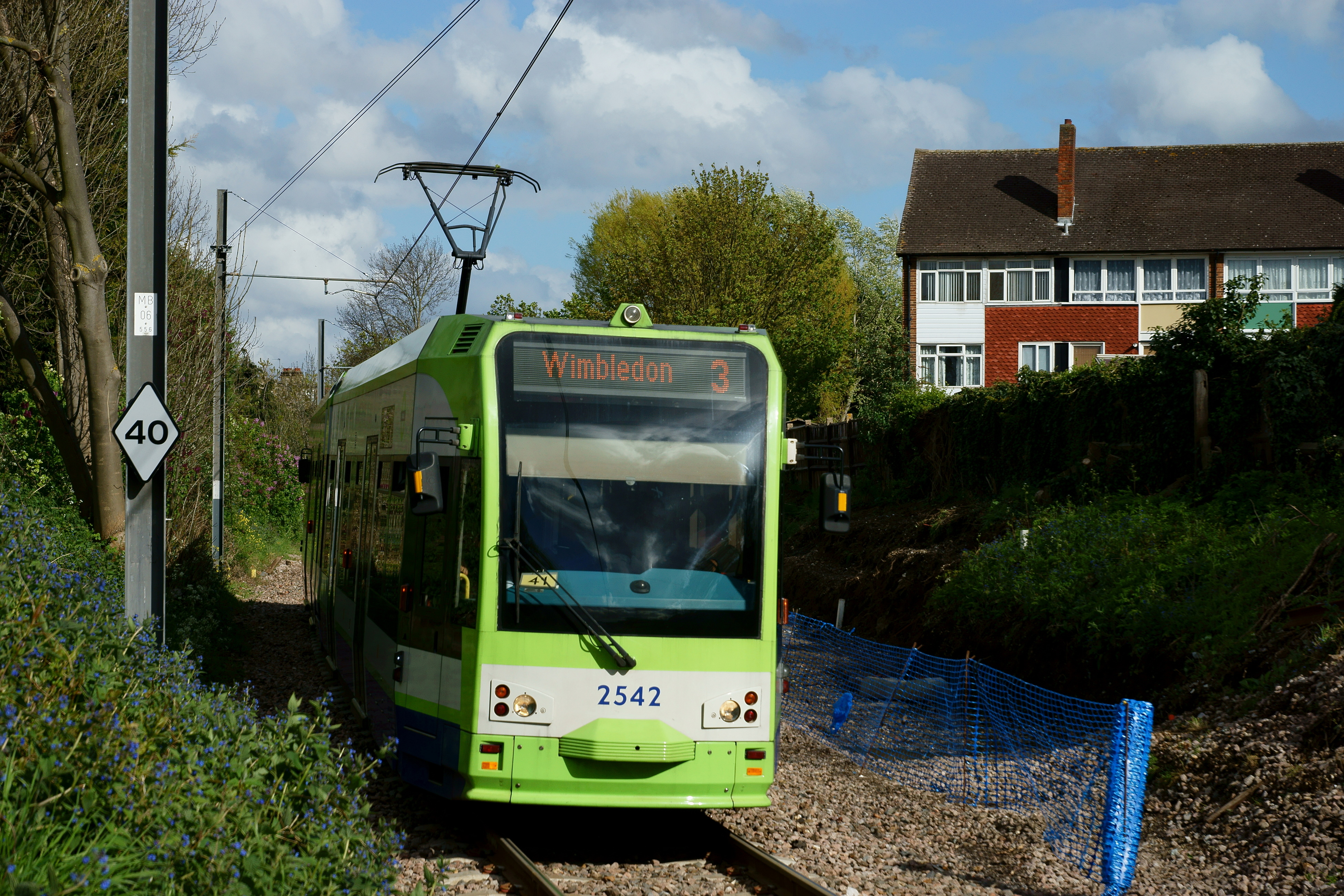 Arriving at Mitcham Tram Stop